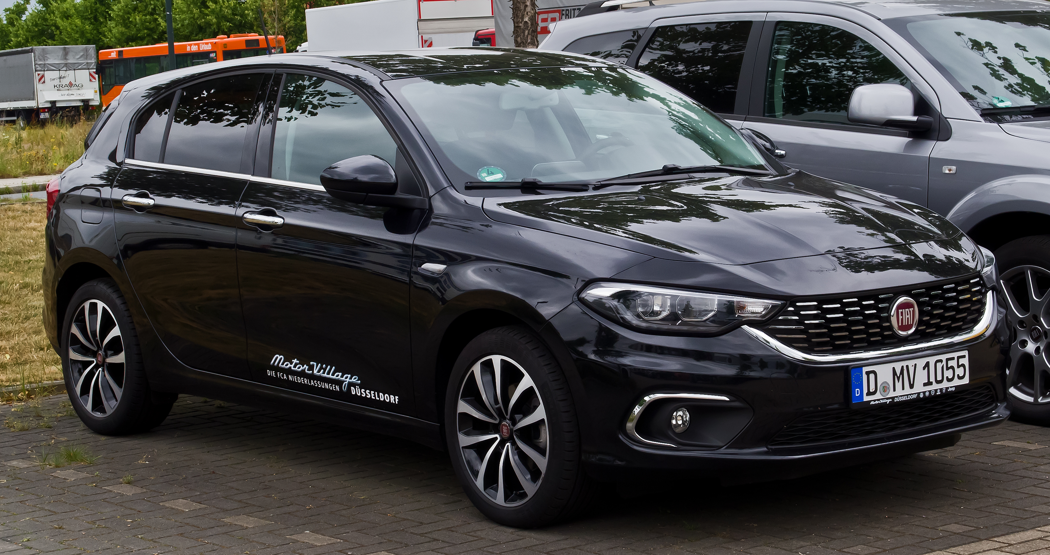 Fiat Tipo 1.4 T-Jet Lounge (II)